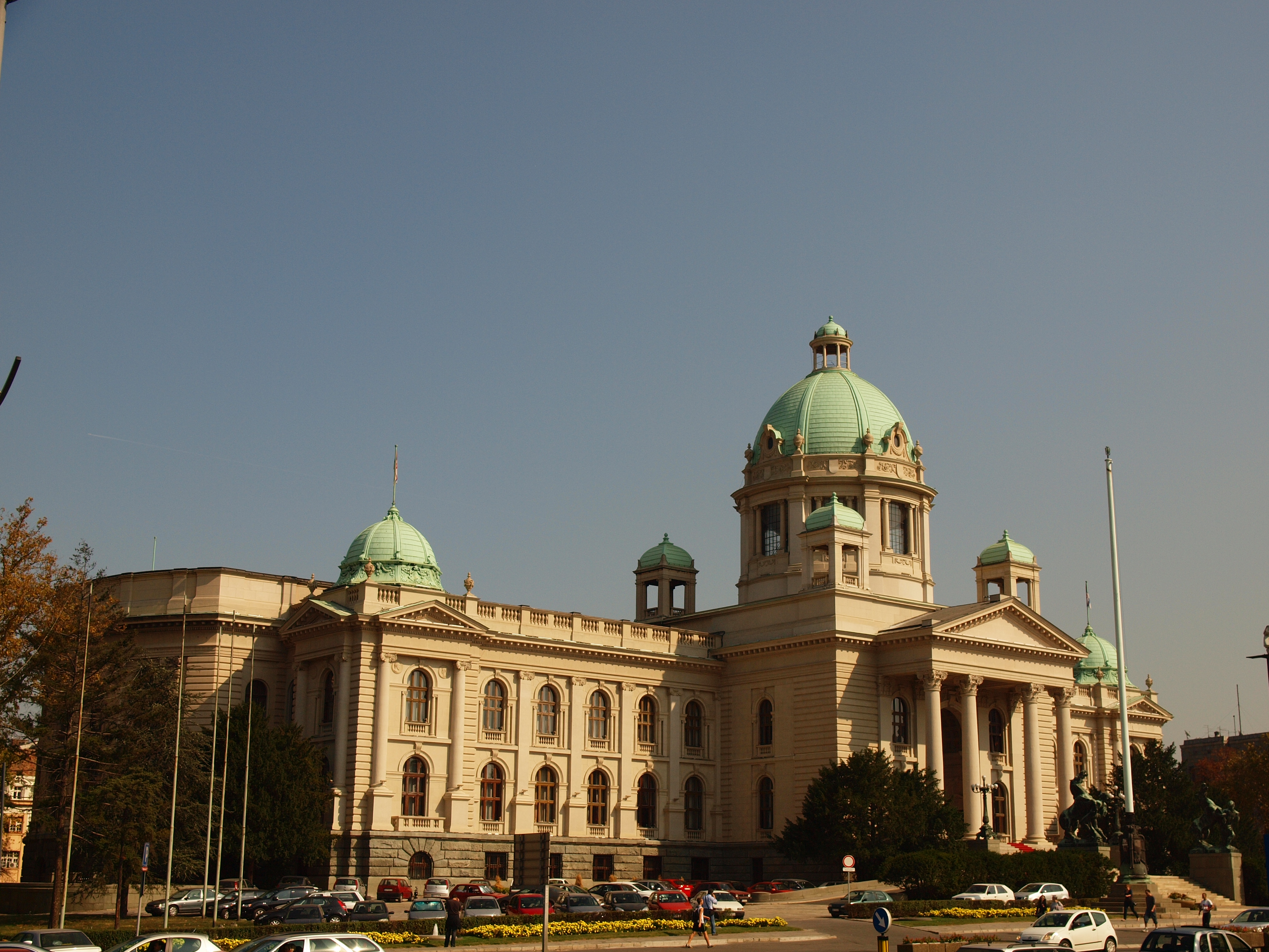 skupstina srbije posle renoviranja dva